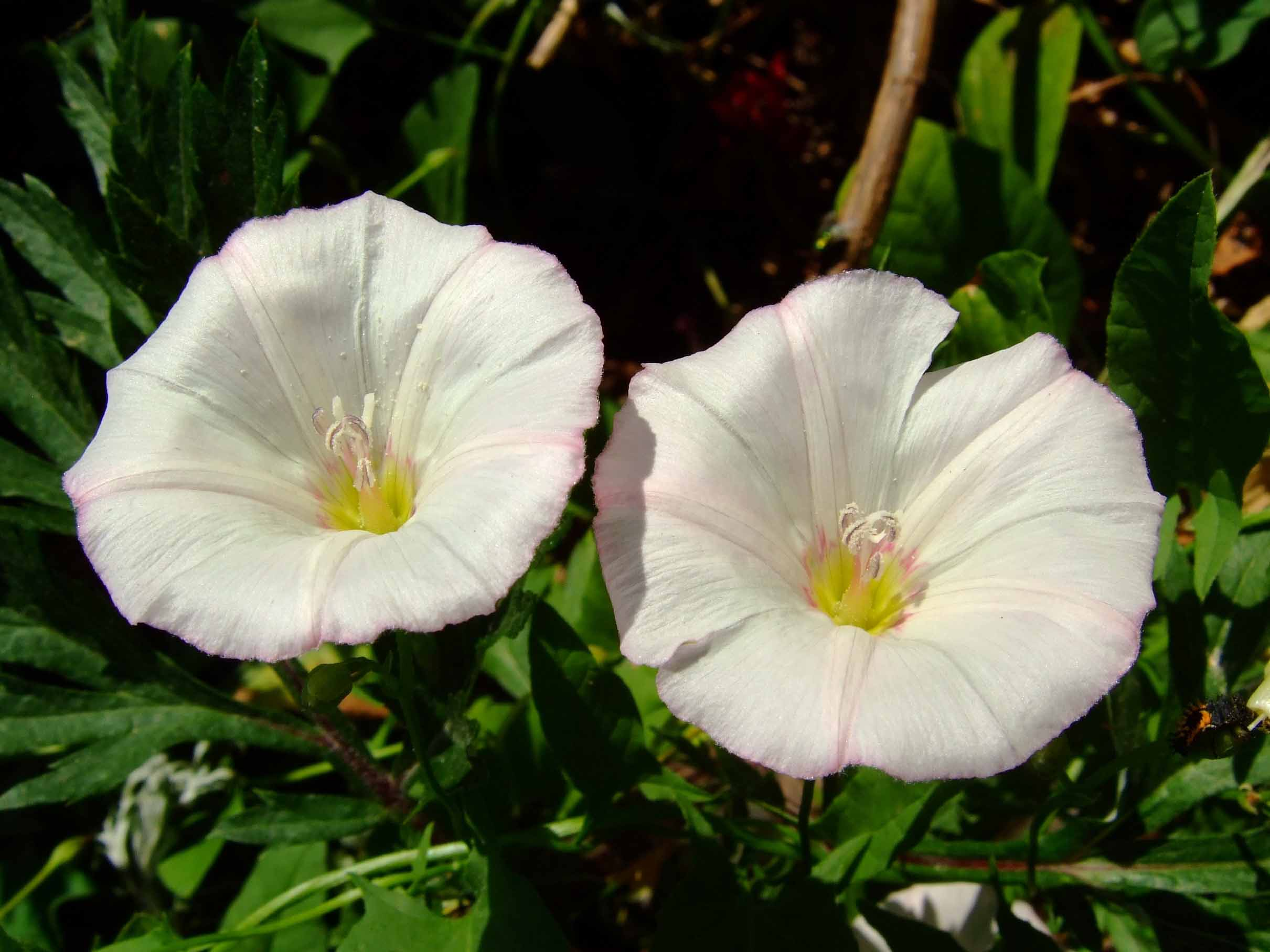 Field Bindweed flowers in Hamburg.